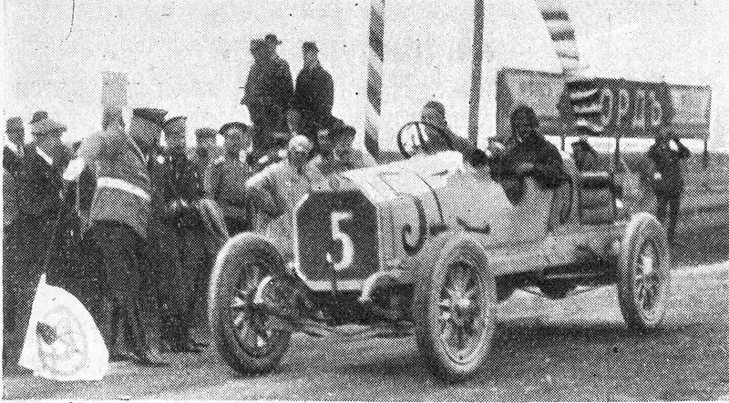 The finish. The arrival of GM Suvorin on Benz 29/60PS 4 cyl.